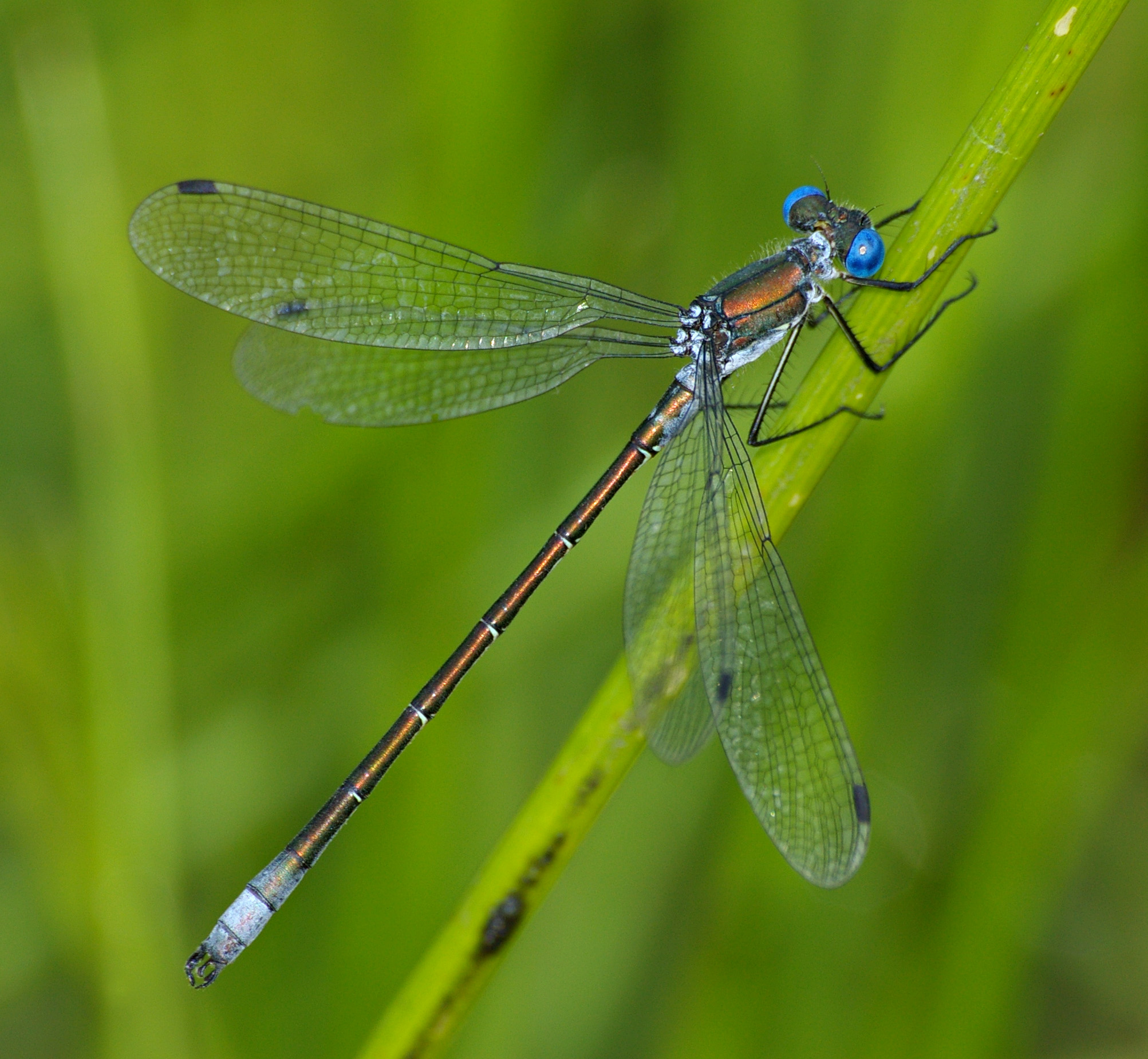 The Emerald Spreadwing Damselfly, Lestes dryas; elder male specimen.